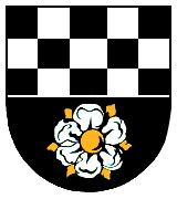 Coat of Arms of Ribbesbüttel